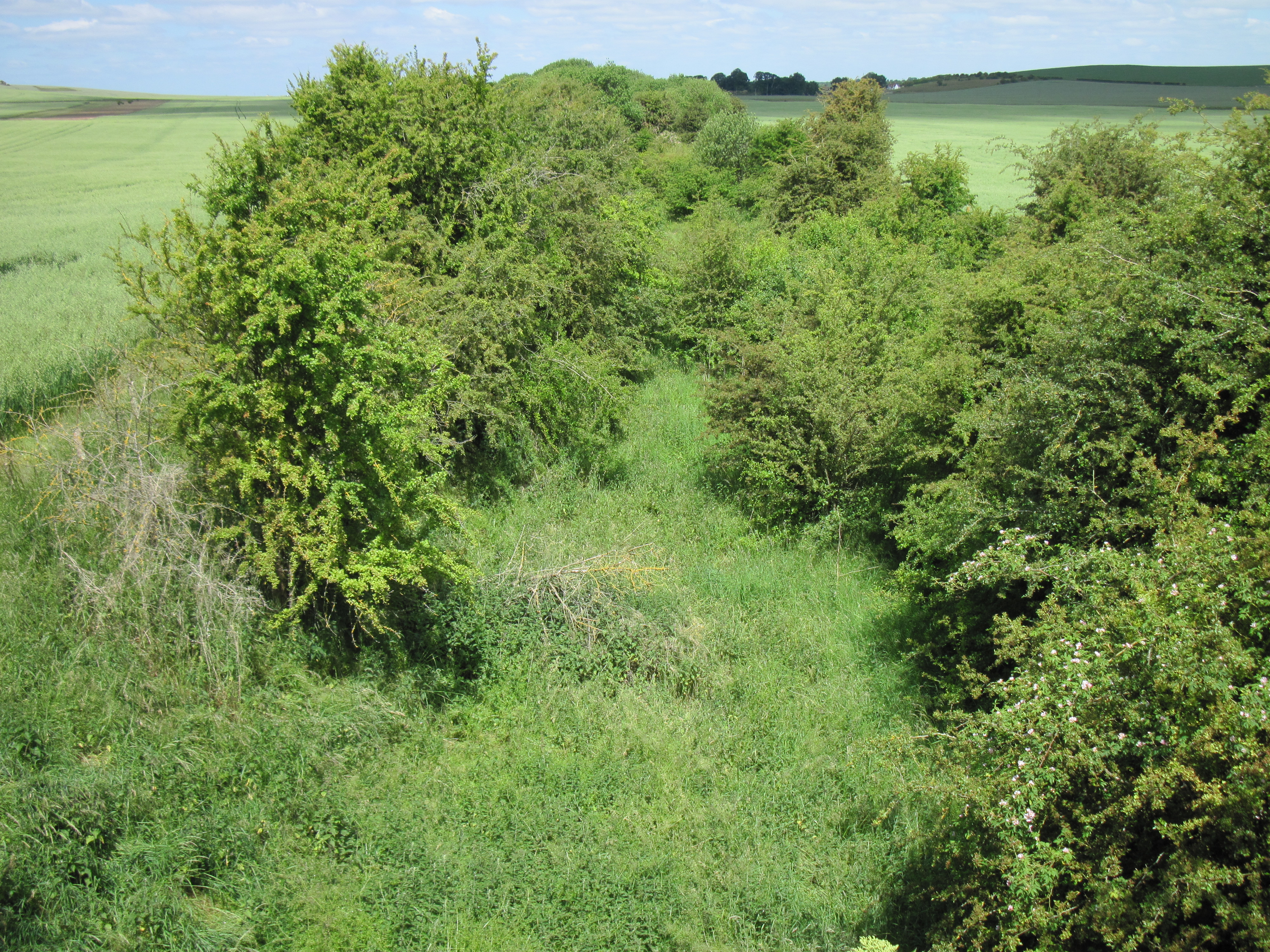 Former Didcot, Newbury and Southampton Railway line between Blewbury and Compton fifty years after closure.